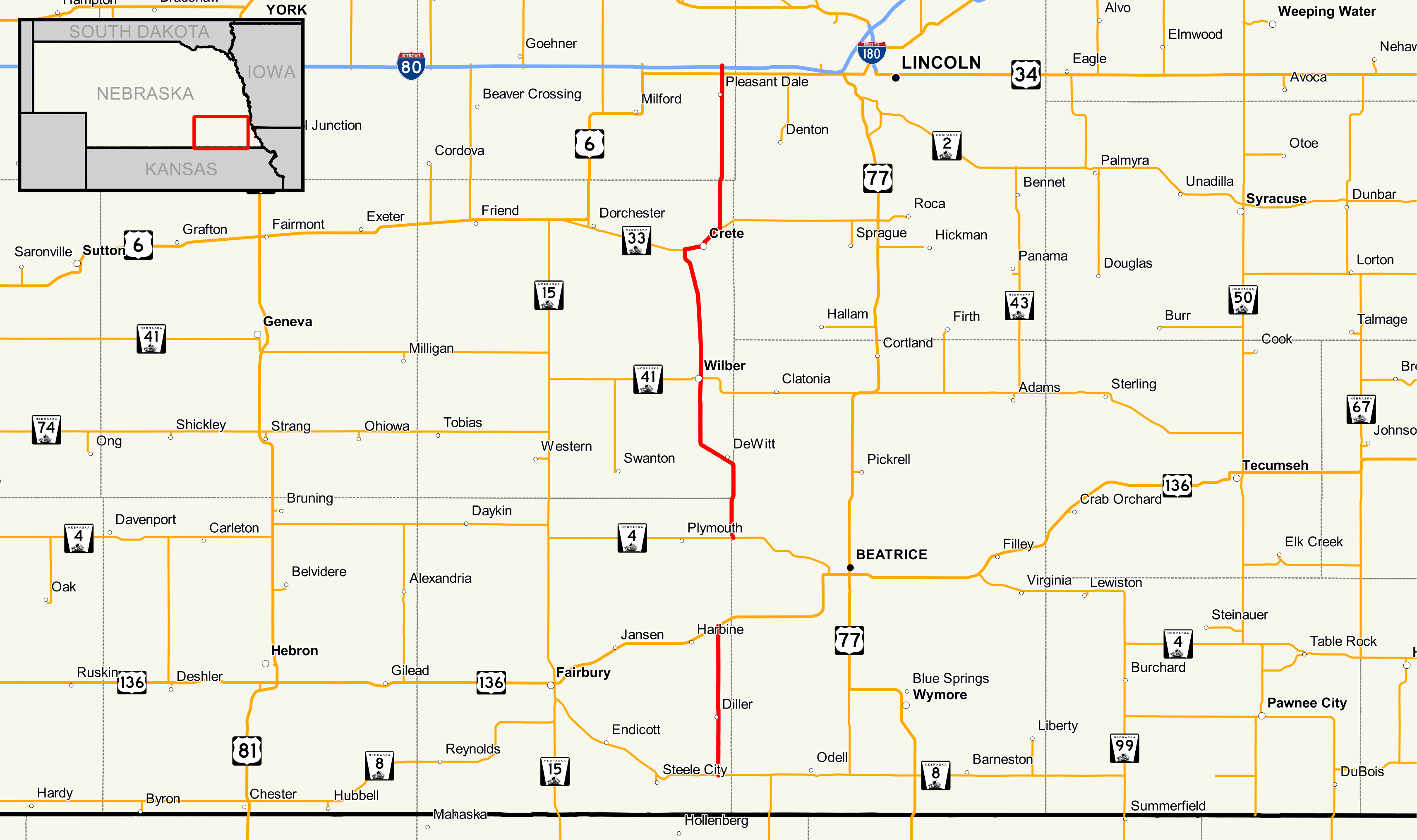 Map of Nebraska Highway 103 Data Sources: Nebraska Highways - - Dec 2016 Nebraska County Boundaries - - Dec 2016 Nebraska City Boundaries - - Dec 2016 This PNG graphic was created with QGIS